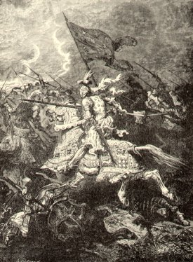 Battle of Crecy, engraving from Cyclopaedia of Universial History, 1885